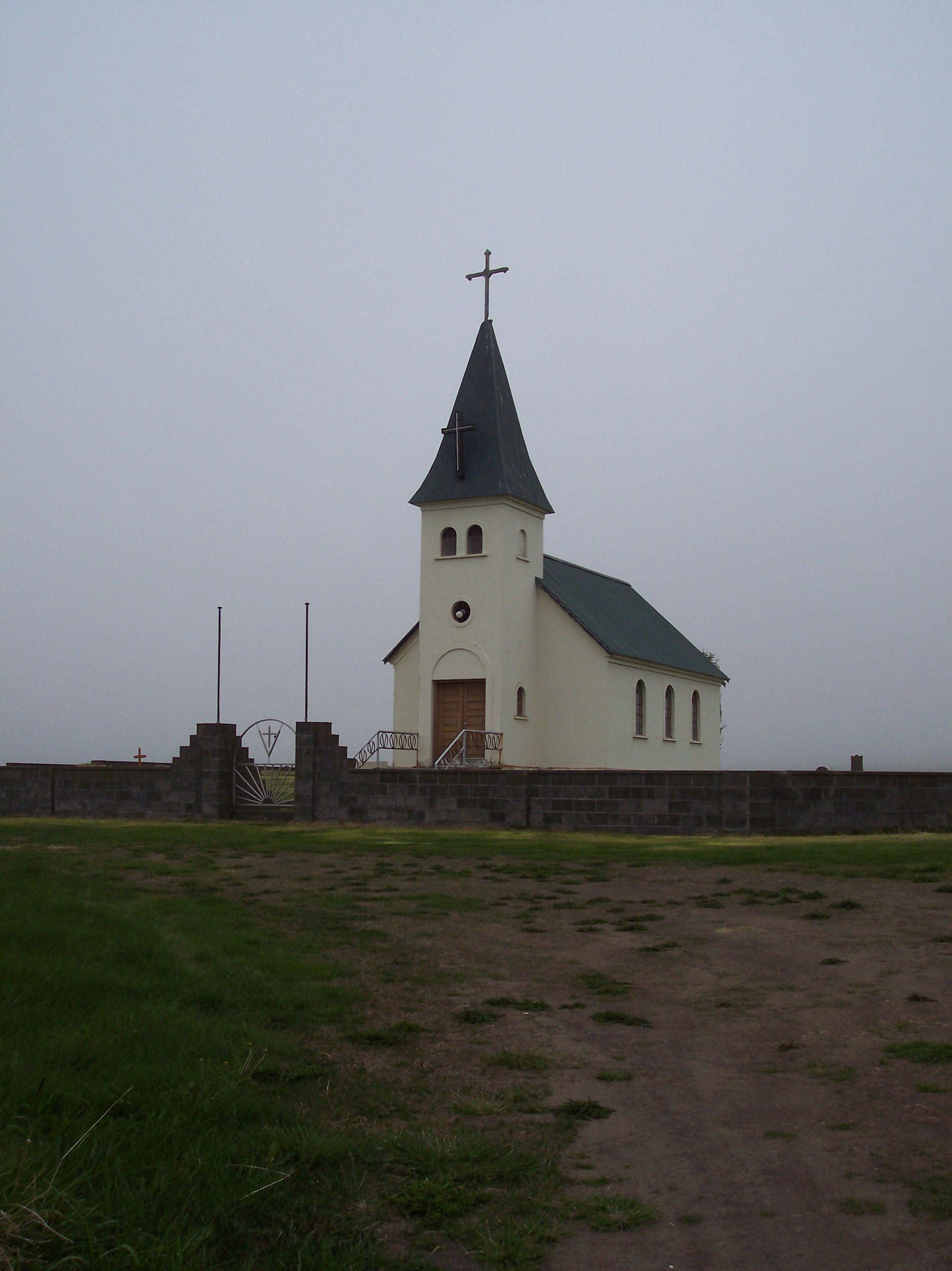 The church at Tjörn, Vatnsnes, Húnaþing vestra, Iceland.